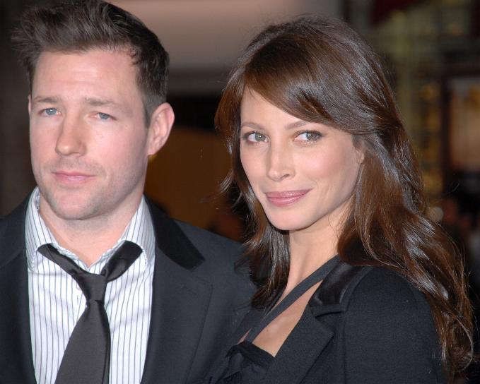 January 7, 2008 - 27 Dresses Premiere in Westwood